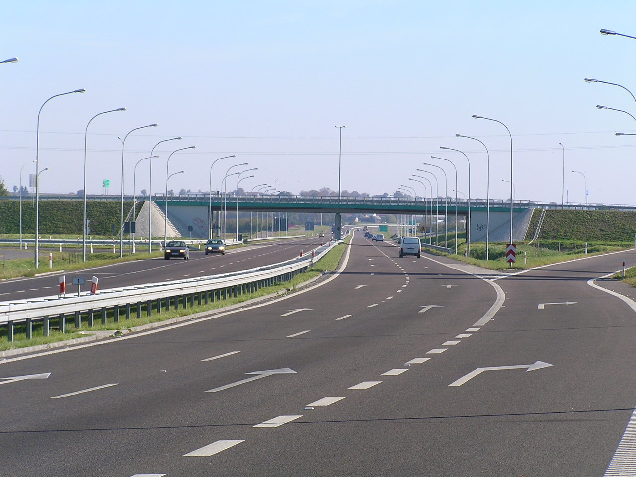 autor: Yarek shalom 20:12, 19 October 2006 (UTC)yarek shalom